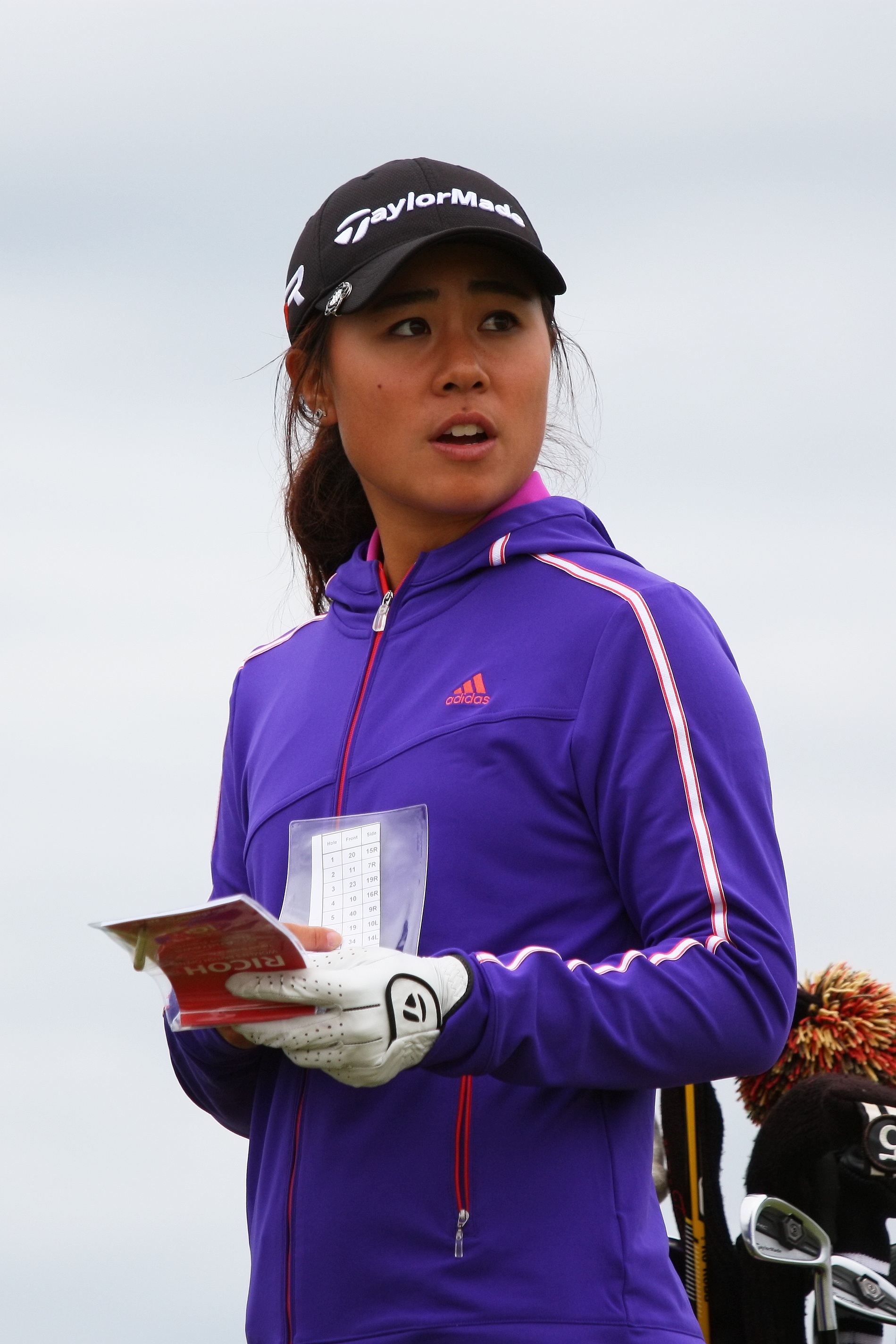 ST ANDREWS, SCOTLAND – JULY 31: Danielle Kang of USA on the 15th tee during final practice round of 2013 Ricoh Women's British Open held at St Andrews Old Course on July 31, 2013 in St Andrews, Scotland. (Photo by Wojciech Migda)